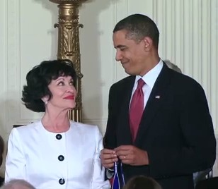 Chita Rivera, at the White House in August 2009, looks at Barack Obama prior to receiving the Presidential Medal of Freedom